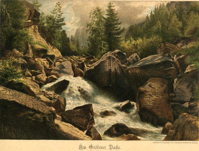 The "Dursan" creek, an old maybe celtic name for Val Gardena. "Nach einem Aquarell von Hermann Krabbes. Choromotypographie von Fisher &Wittig in Leipzig"